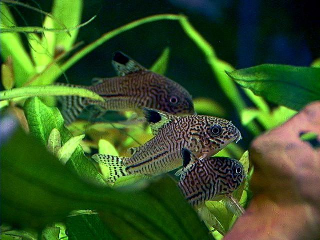 Cory trili